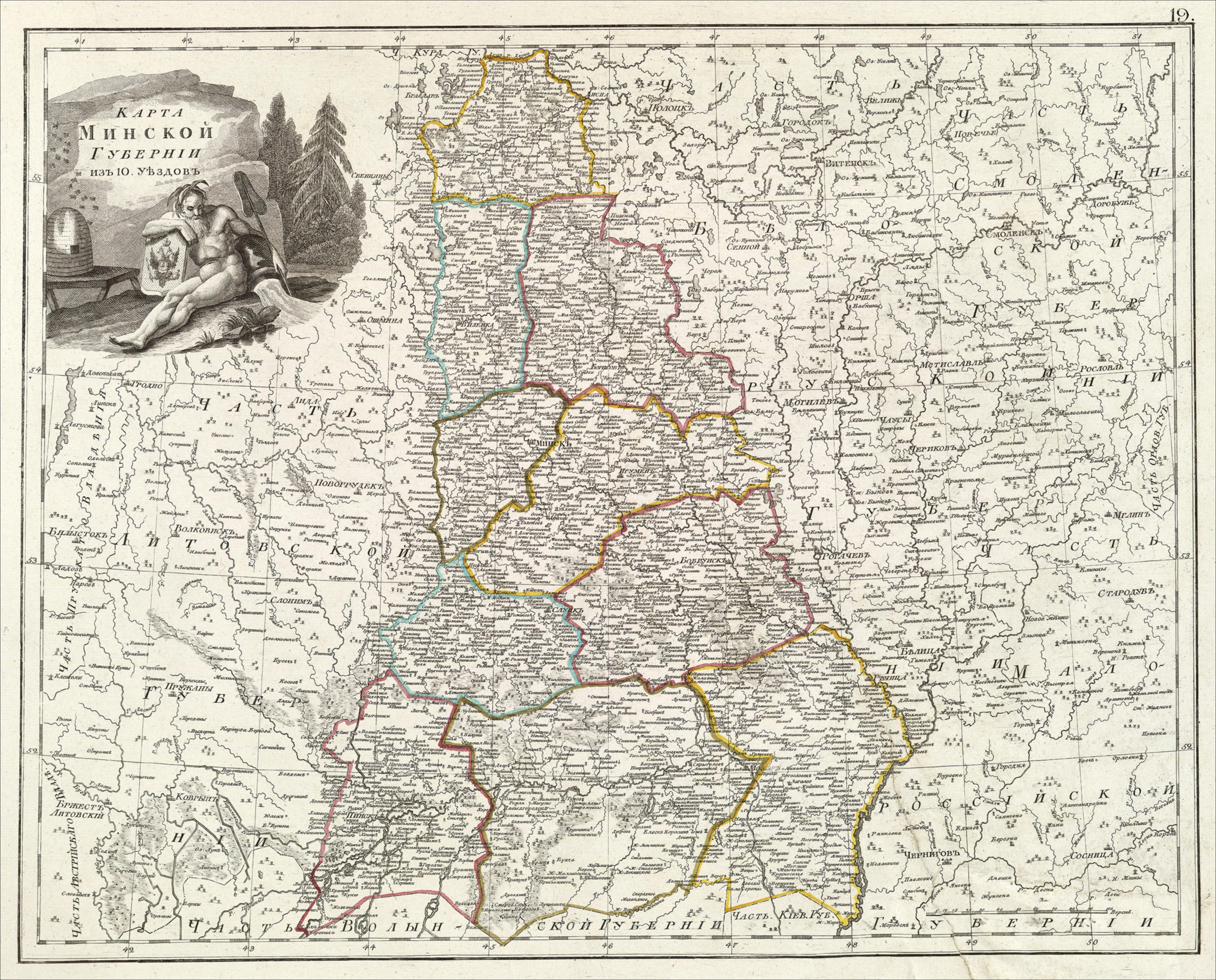 Atlas of Russian Empire. 1800 year. List 19. Minskaya Province from 10 uyezds